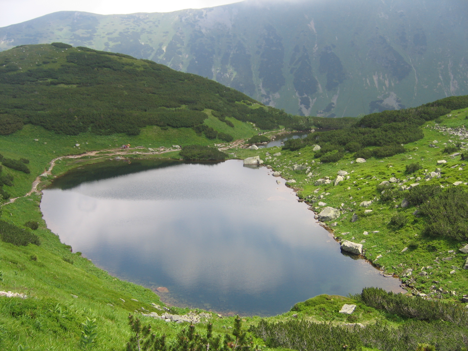 Rohace lake (Western Tatras), júl 2005, foto Julo Mlich